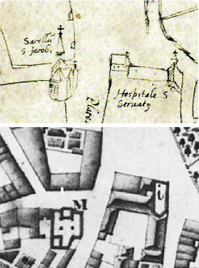 Two old maps of Bredestraat and the southeastern corner of Vrijthof in Maastricht, the Netherlands. Top: part of map by (probably) Simon de Bellomonte (1587). Bottom: part of map by Larcher d'Aubencourt (1749).